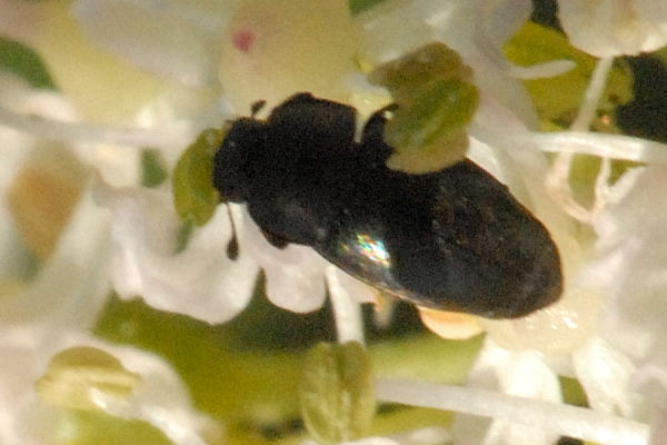 Brassicogethes viridescens (syn.: Meligethes viridescens from Commanster, Belgian High Ardennes.